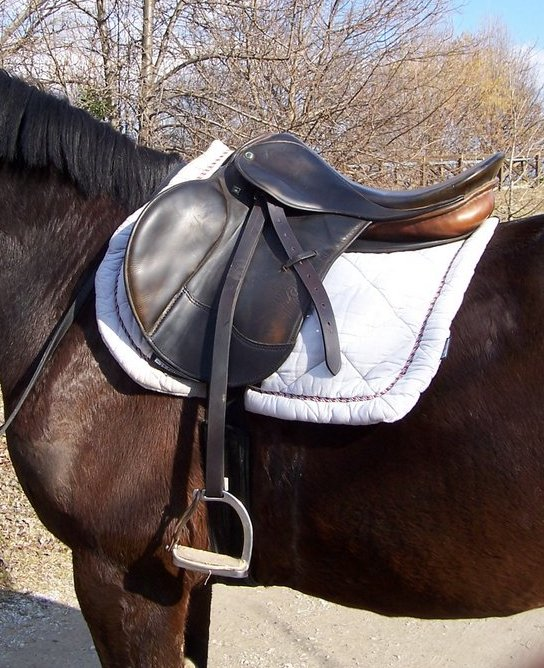 A multipurpouse English saddle